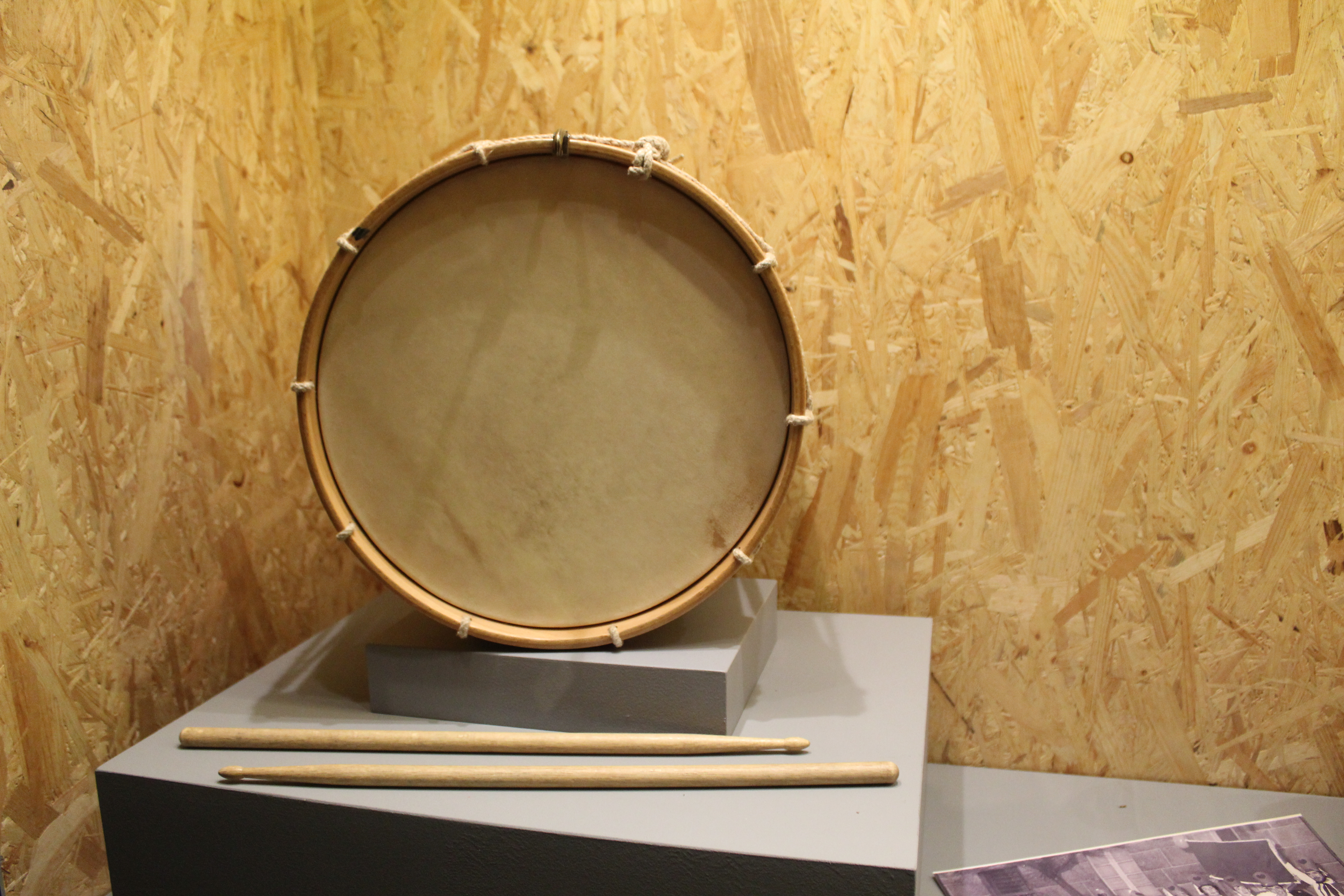 Bombo coas súas baquetas